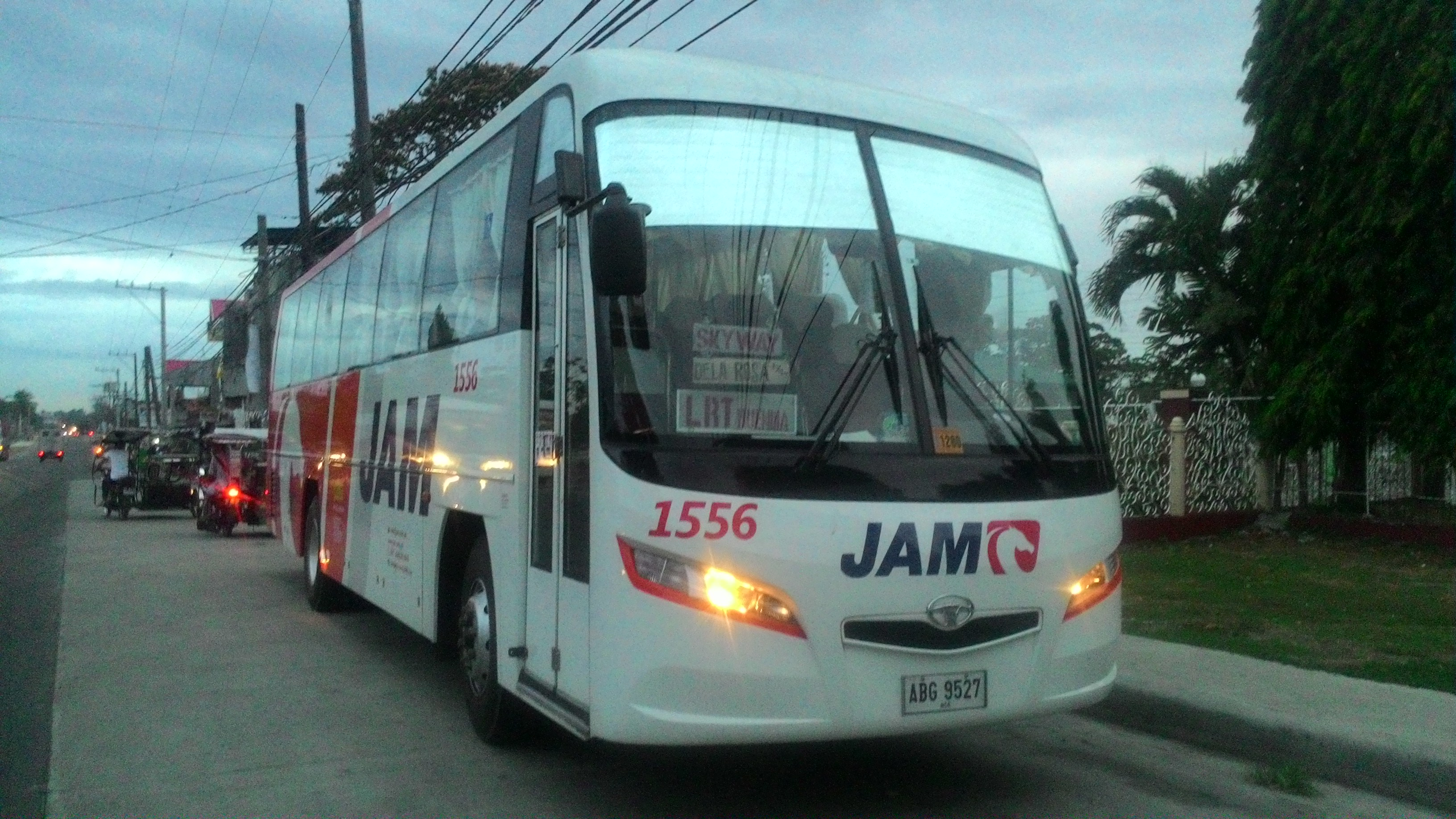 A JAM Transit bus bound for LRT Buendia.